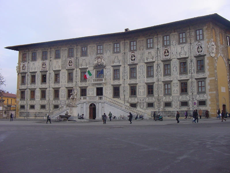 A view of the main building of the Scuola Normale Superiore, Pisa, Italy